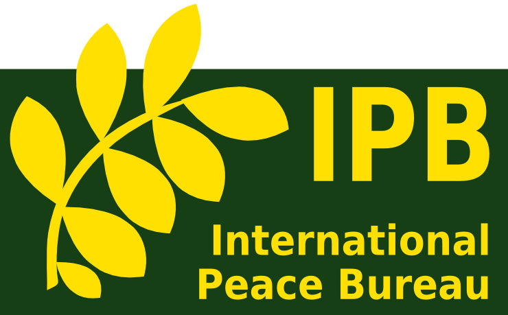 This is the updated International Peace Bureau logo, depicting a yellow olive branch with the IPB initials next to it.